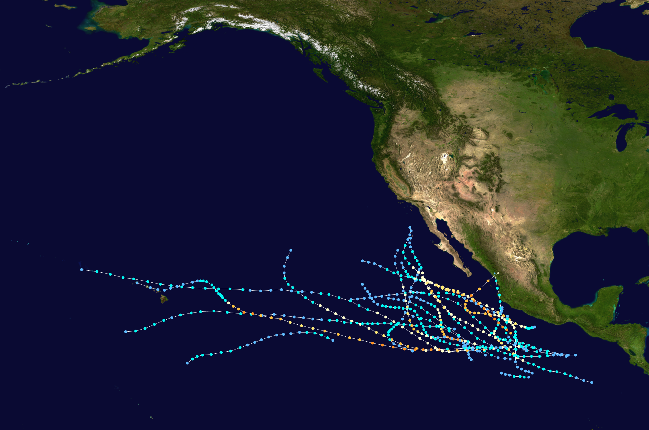 This map shows the tracks of all tropical cyclones in the 1983 Pacific hurricane season. The points show the location of each storm at 6-hour intervals. The colour represents the storm's maximum sustained wind speeds as classified in the Saffir-Simpson Hurricane Scale (see below), and the shape of the data points represent the type of the storm. Saffir–Simpson scale Tropical depression≤38 mph≤62 km/h Category 3111–129 mph178–208 km/h Tropical storm39–73 mph63–118 km/h Category 4130–156 mph209–251 km/h Category 174–95 mph119–153 km/h Category 5≥157 mph≥252 km/h Category 296–110 mph154–177 km/h Unknown Storm type Tropical cyclone Subtropical cyclone Extratropical cyclone / Remnant low / Tropical disturbance / Monsoon depression